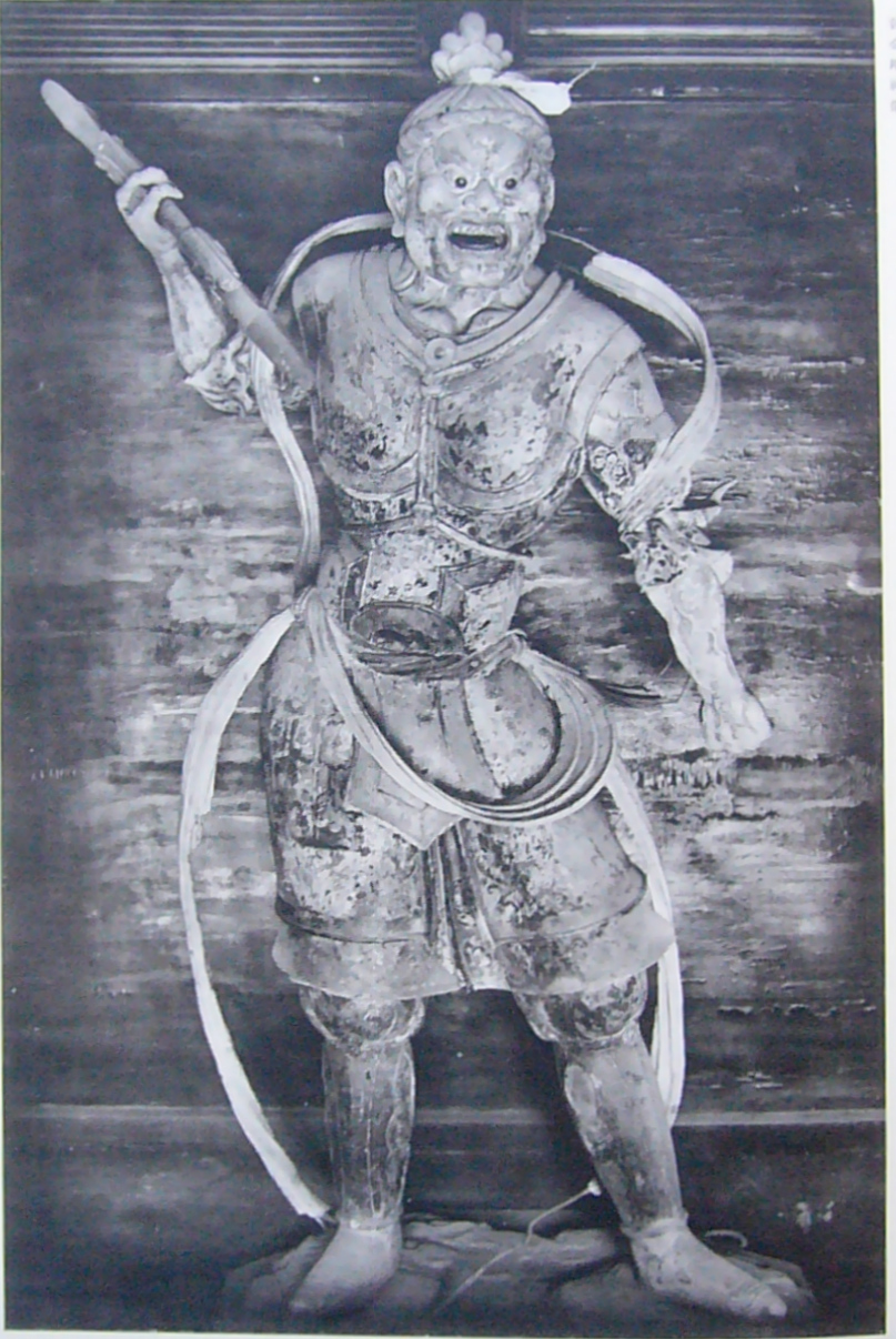 Vajra-dhara (Vajrapani, Shukongōshin), Coloured clay statue, Hokke-dō, Todaiji Temple, Nara, 8th century, 167cm height, 8th century, Photo before restoration on right hand finger.